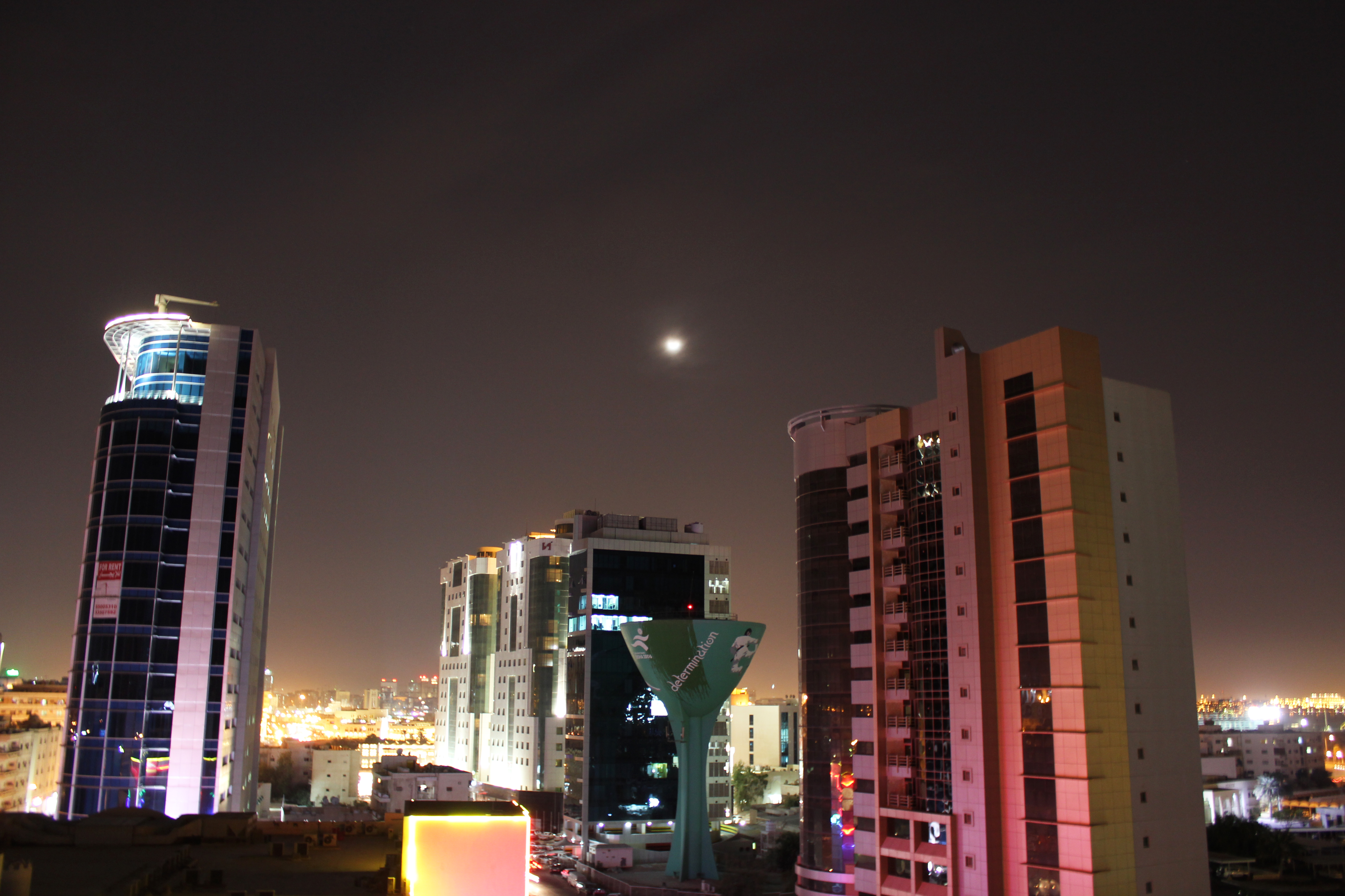 Al Aaliya Street in the Al Mirqab district of Doha, Qatar. One of the water towers designed for the 2006 Asian Games can be seen.